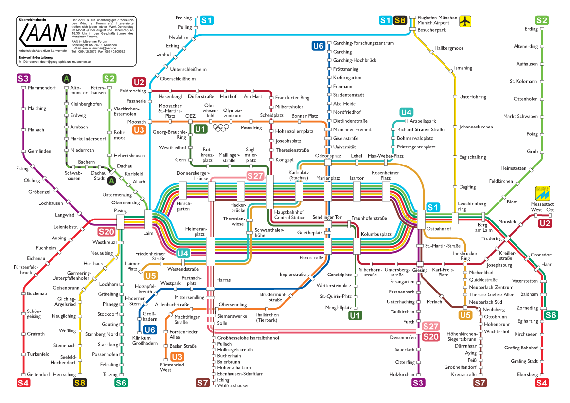 "Südring" planning variant for an additional rapid transit city crossing in Munich